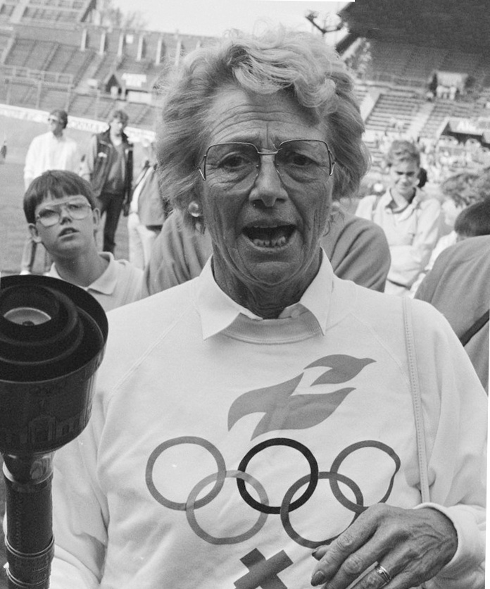 Fanny Blankers-Koen